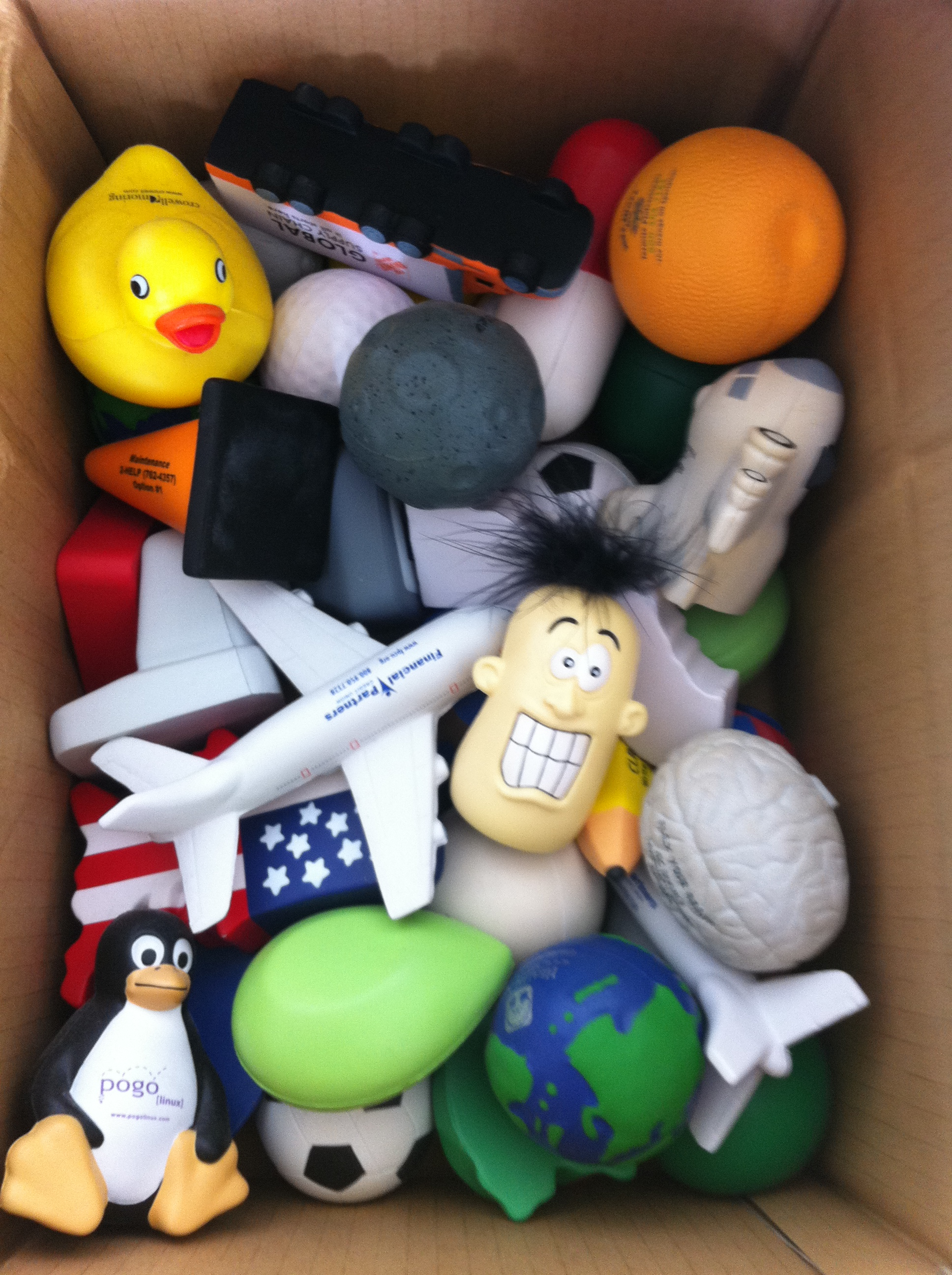 Packing up the stress balls at work.